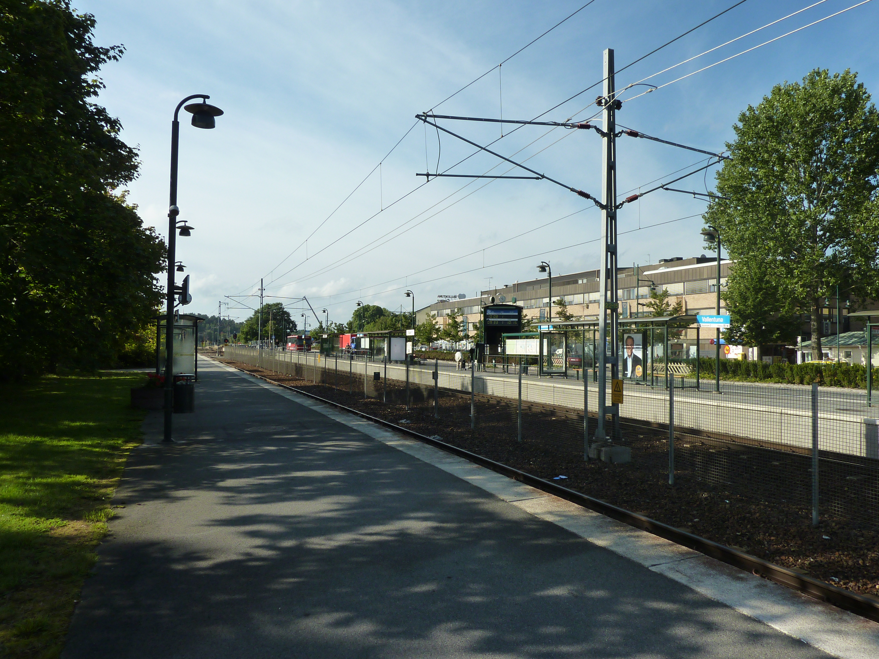 Railway station Vallentuna, at Roslagsbanan railway, Stockholm, Sweden